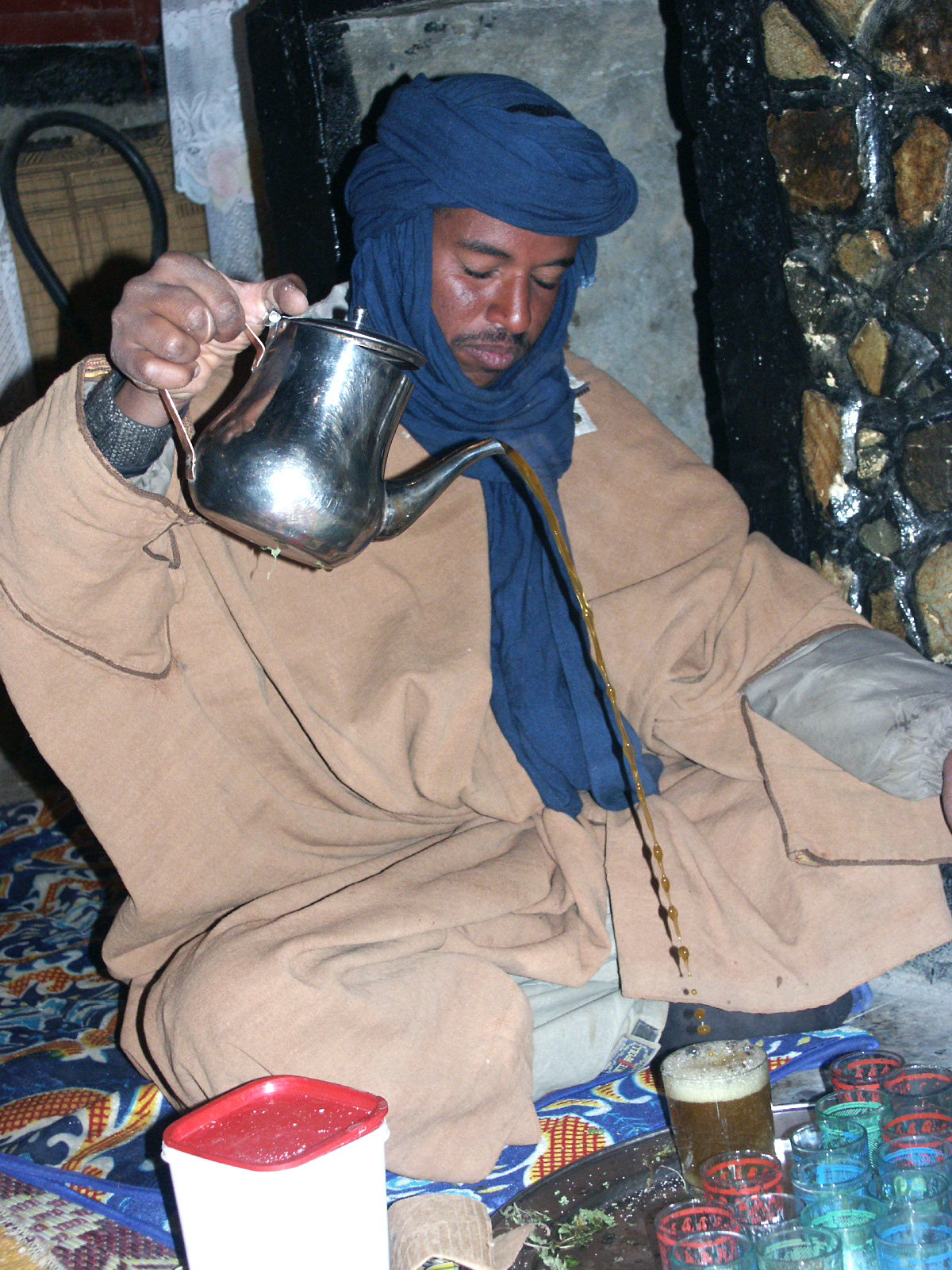 Tea served by a touareg in Algeria